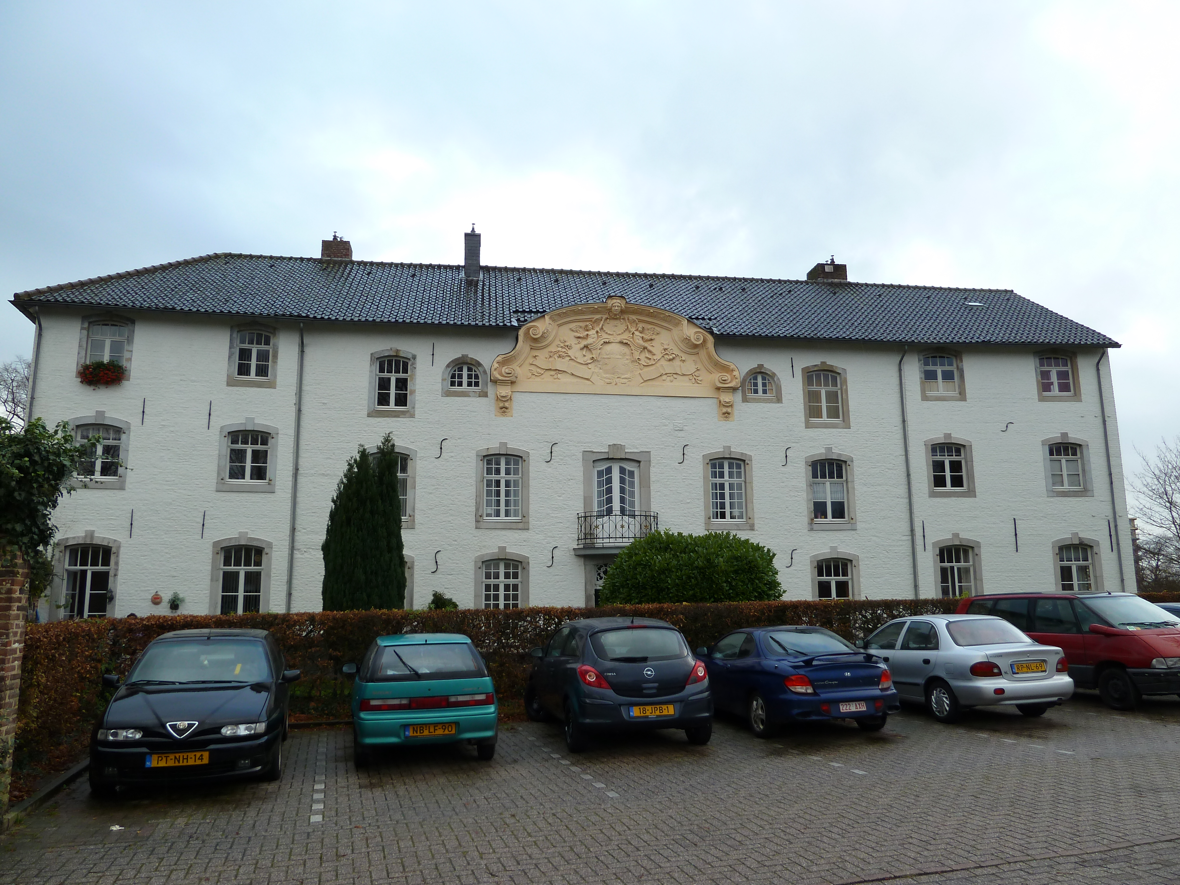 Tentstraat 53, Vaals, Limburg, the Netherlands